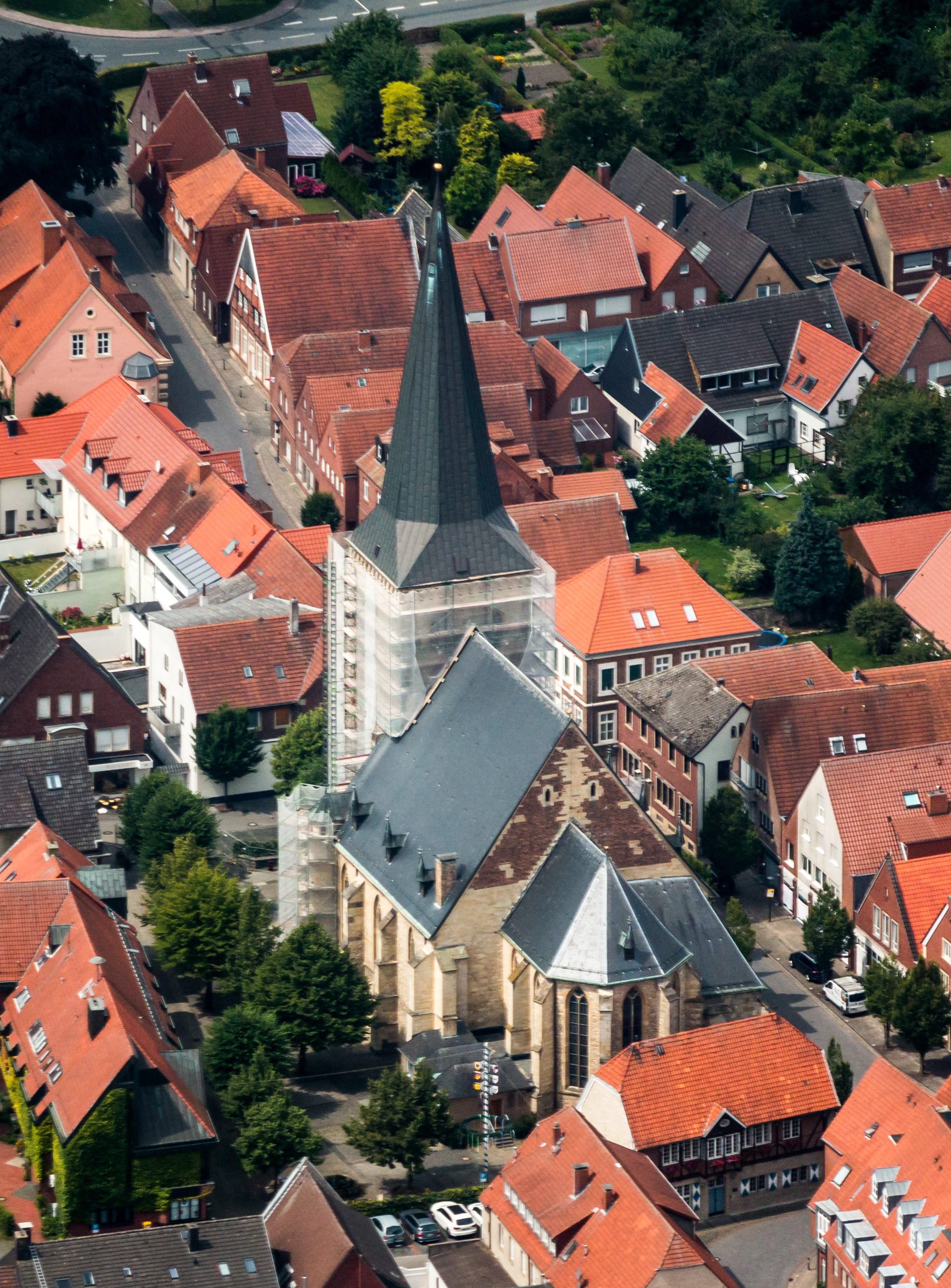 St. Gertrude's Church, Horstmar, North Rhine-Westphalia, Germany